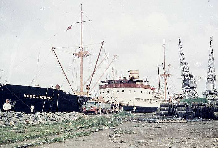 German cargo ship MV Vogelsberg when unloading bags and general cargo in the port of Freetown - 1958